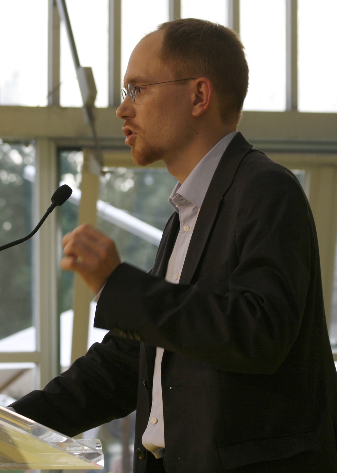 Austrian politician Alexander Zach at the presentation of the candidates of the Liberal Forum for the Austrian legislative election, 2008 (Vienna)